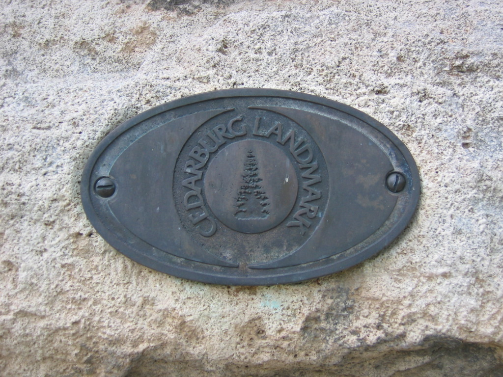 These plaques are places on Cedarburg Landmarks in Cedarburg, Wisconsin.